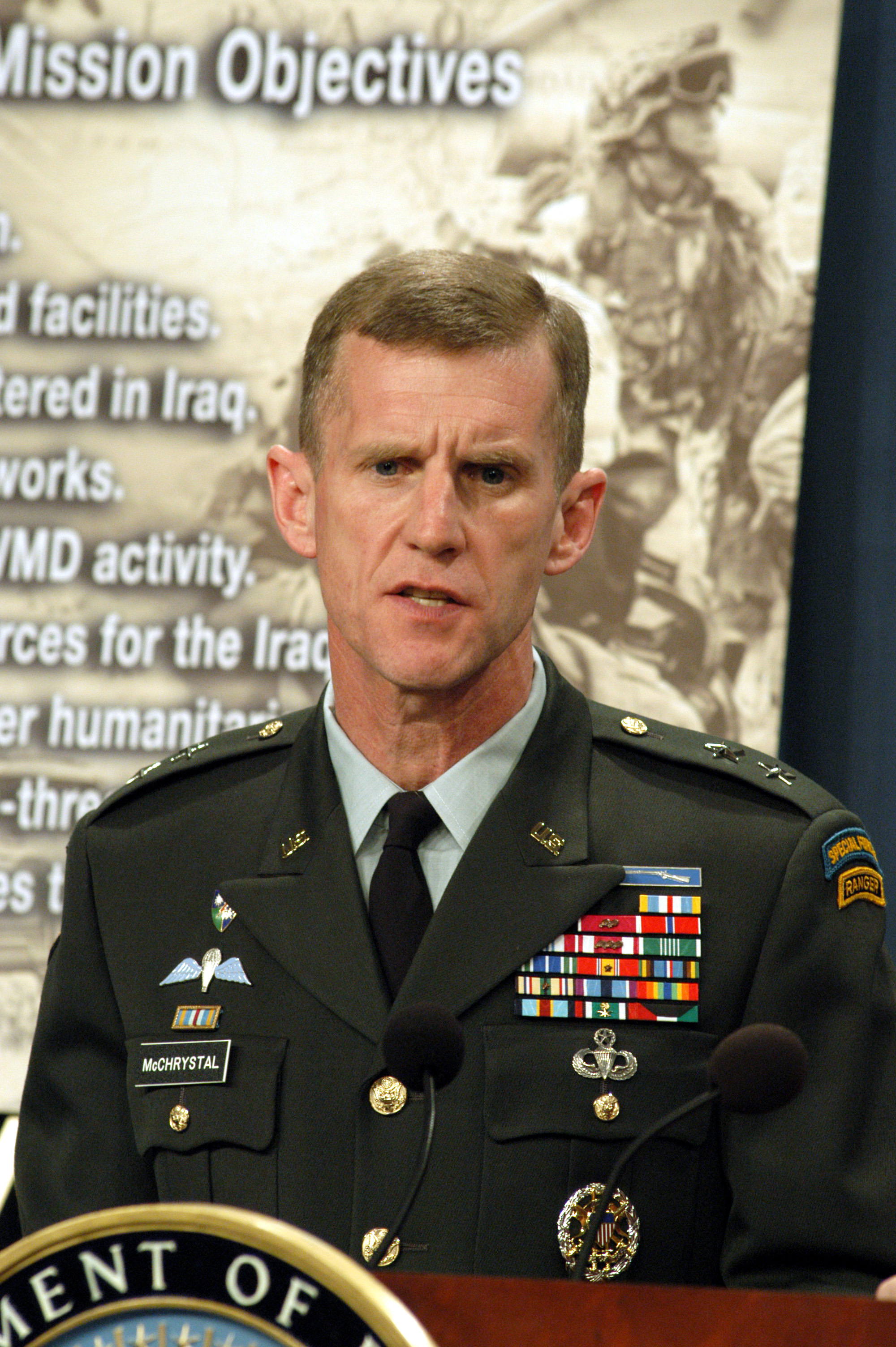 Army Maj. Gen. Stanley A. McChrystal answers a reporter's question during a Pentagon press conference on April 14, 2003. McChrystal and Assistant Secretary of Defense for Public Affairs Victoria Clarke brought reporters up-to-date on Operation Iraqi Freedom, which is the multinational coalition effort to liberate the Iraqi people, eliminate Iraq's weapons of mass destruction and end the regime of Saddam Hussein. McChrystal is the vice director for Operations, J-3, the Joint Staff.